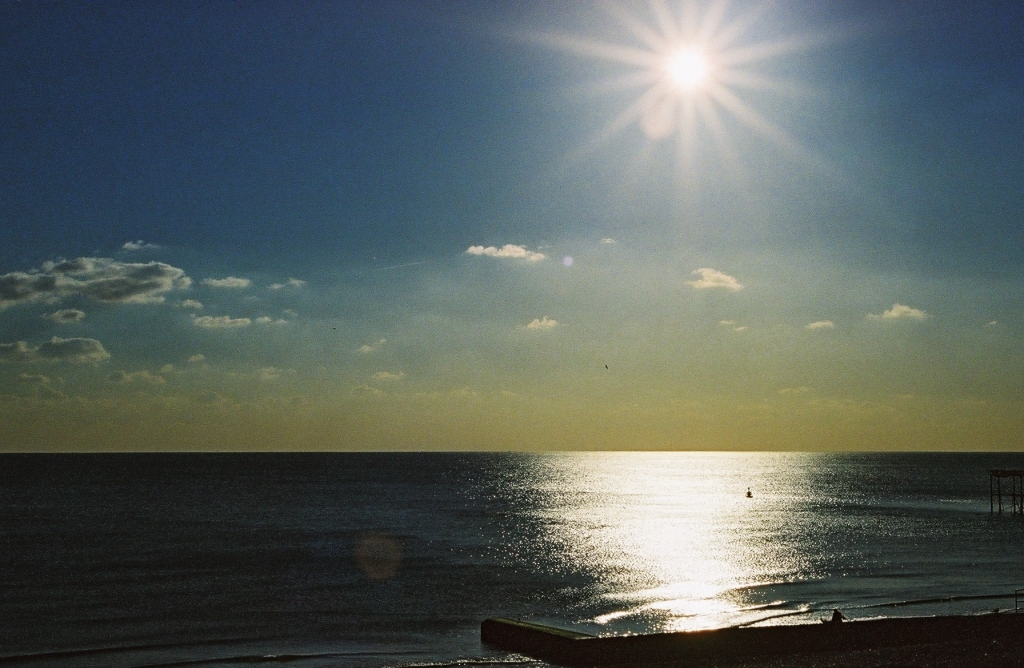 Looking South from the seafront at Brighton.